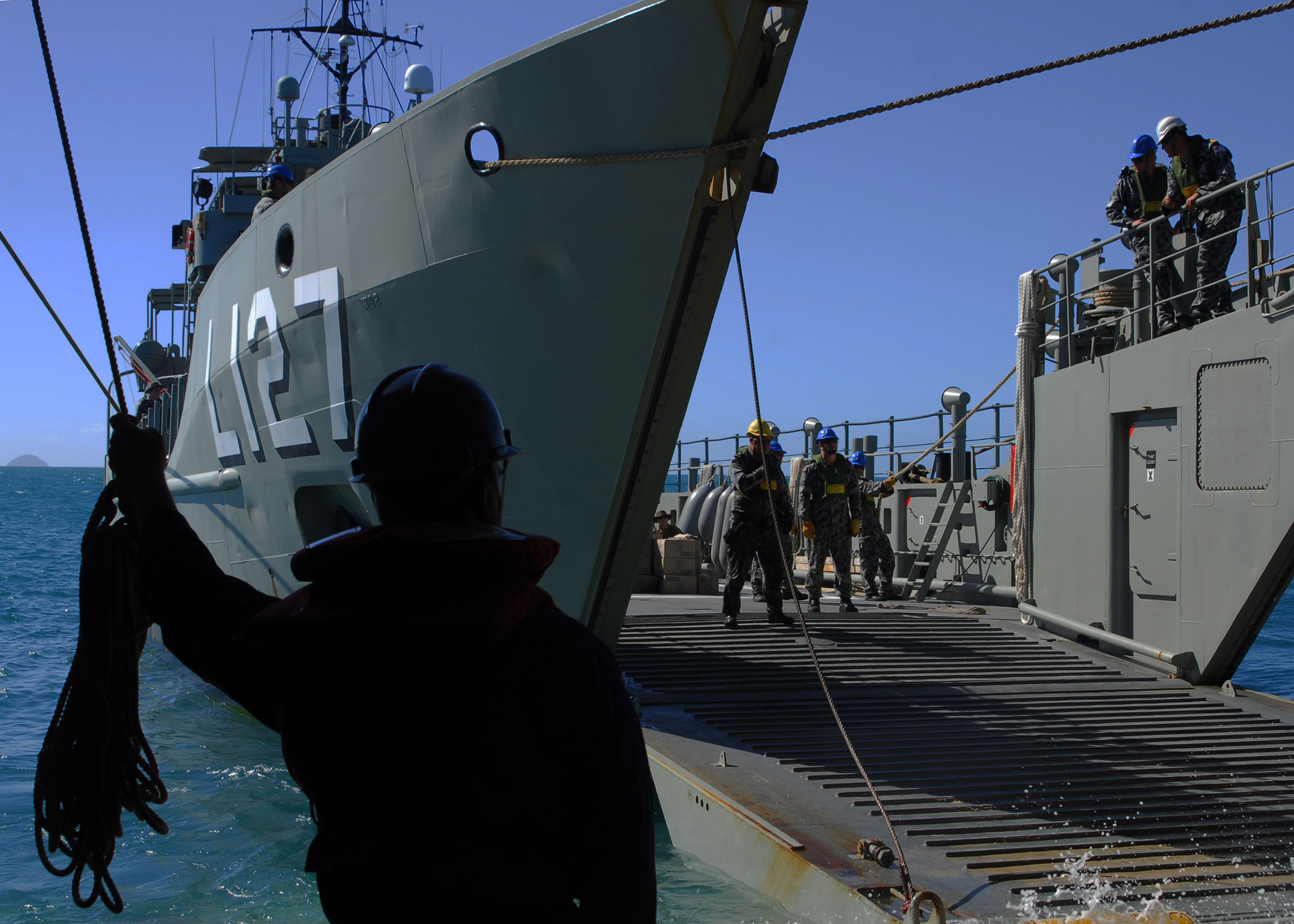 A Sailor assigned to the forward-deployed amphibious transport dock USS Denver (LPD 9) waits to cast off mooring lines during a sterngate marriage with an Australian landing craft utility during a Talisman Saber 2009 (TS09) training exercise July 11, 2009. TS09 is a biennial combined training activity designed to train Australian and U.S. forces in planning and conducting combined task force operations, which will help improve ADF/US combat readiness and interoperability